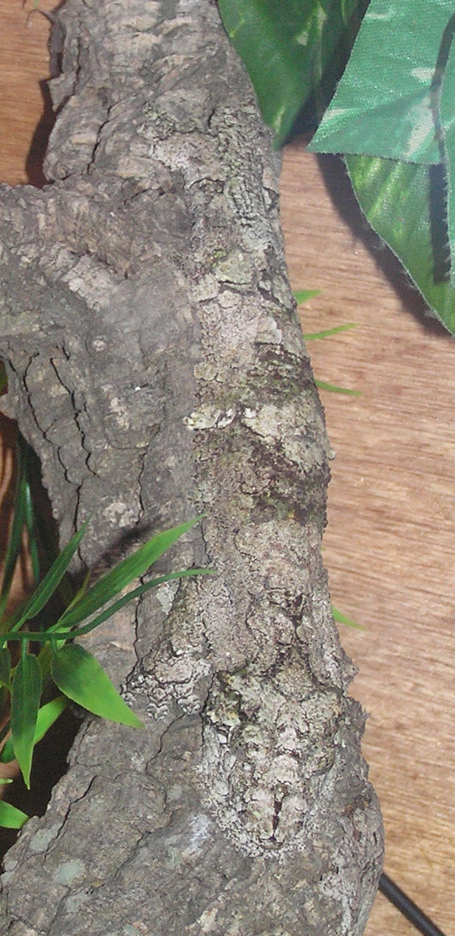 A pre-adult specimen of gecko Uroplatus sameiti mimicking the underlying branch surface.